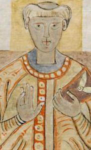 Portrait of Paulus Diaconus. Detail of fol. 34r of Laurentian Plut. 65.35. Image is a cropped version of File:PaulusDiaconus Plut.65.35.jpg (originally uploaded by Dbachmann).